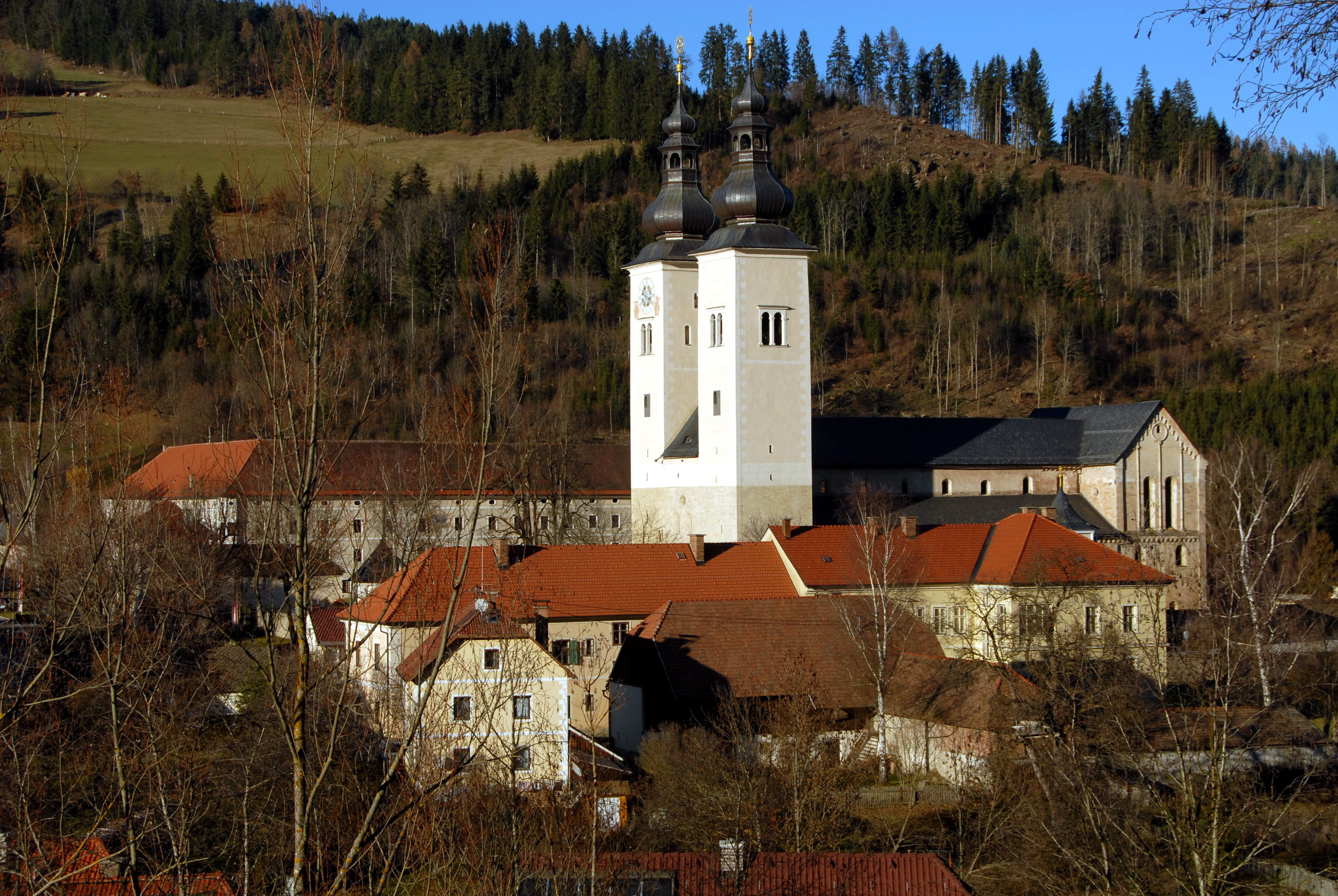 Cathedral of Gurk, Carinthia, Austria